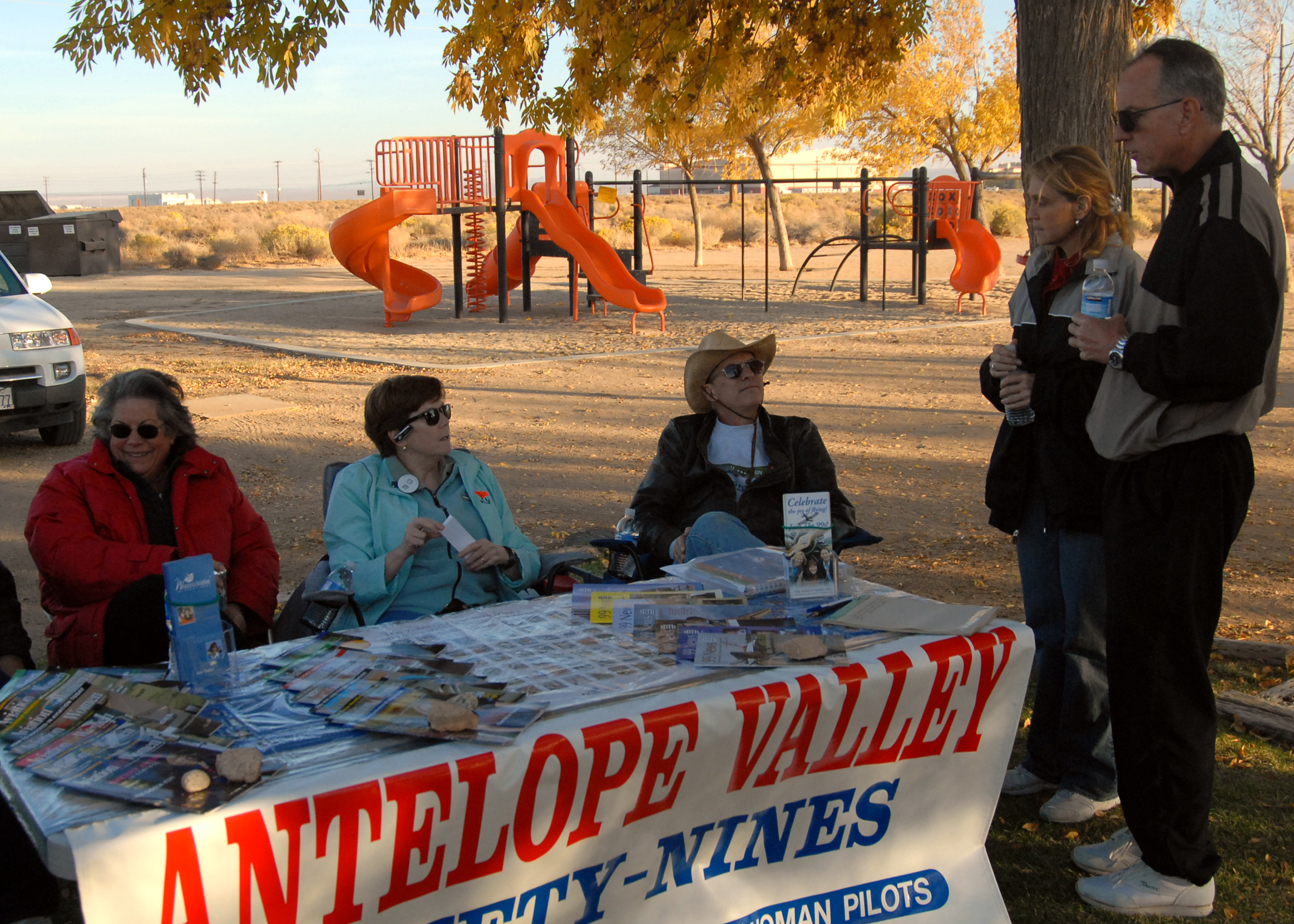 Members of the Ninety-Nines and their families talk to attendees of Pancho Barnes Day Nov. 7, 2009. Pancho Barnes Day is an annual event, held to recognize the contributions of females made to aviation. (Air Force photo/William O'Brien)